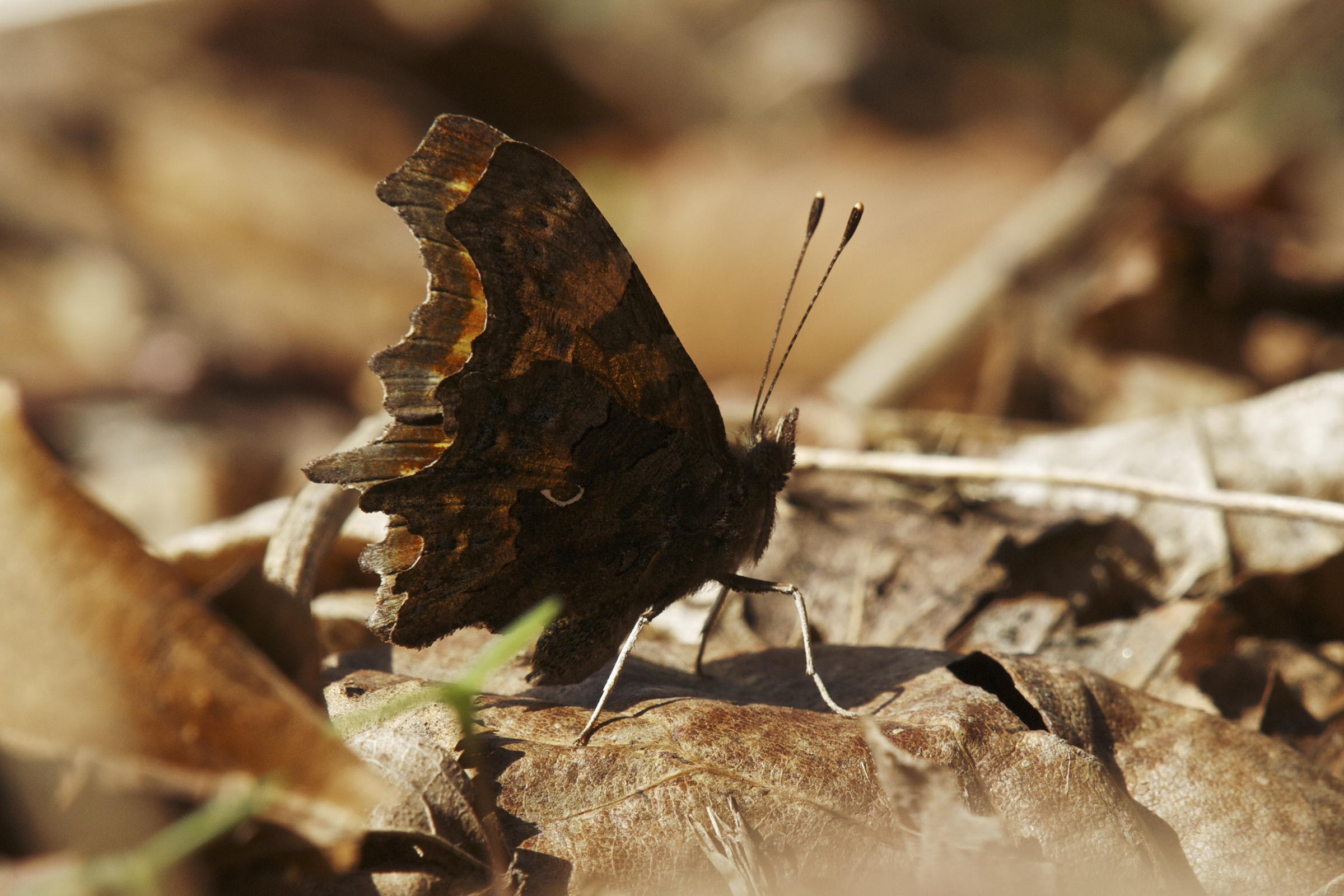 Underwing of Comma (Polygonia c-album), Chemnitz, Germany